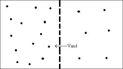 example of osmosis, made in paint by myself